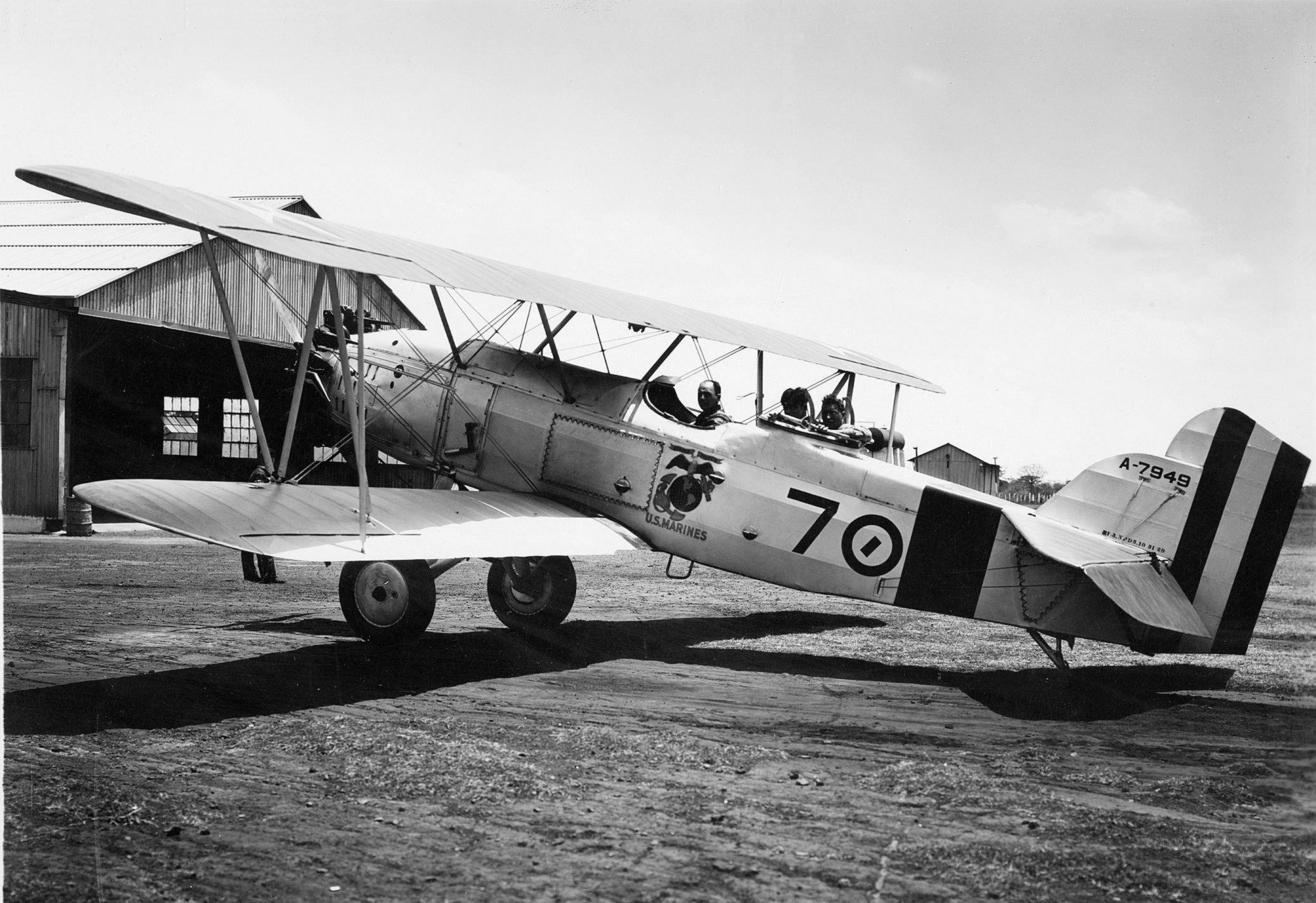 A U.S. Marine Corps Curtiss OC-2 Falcon (BuNo A7949) assigned to Marine Observation Squadron VO-7M pictured on the ground evacuating troops, possibly during service in Nicaragua.